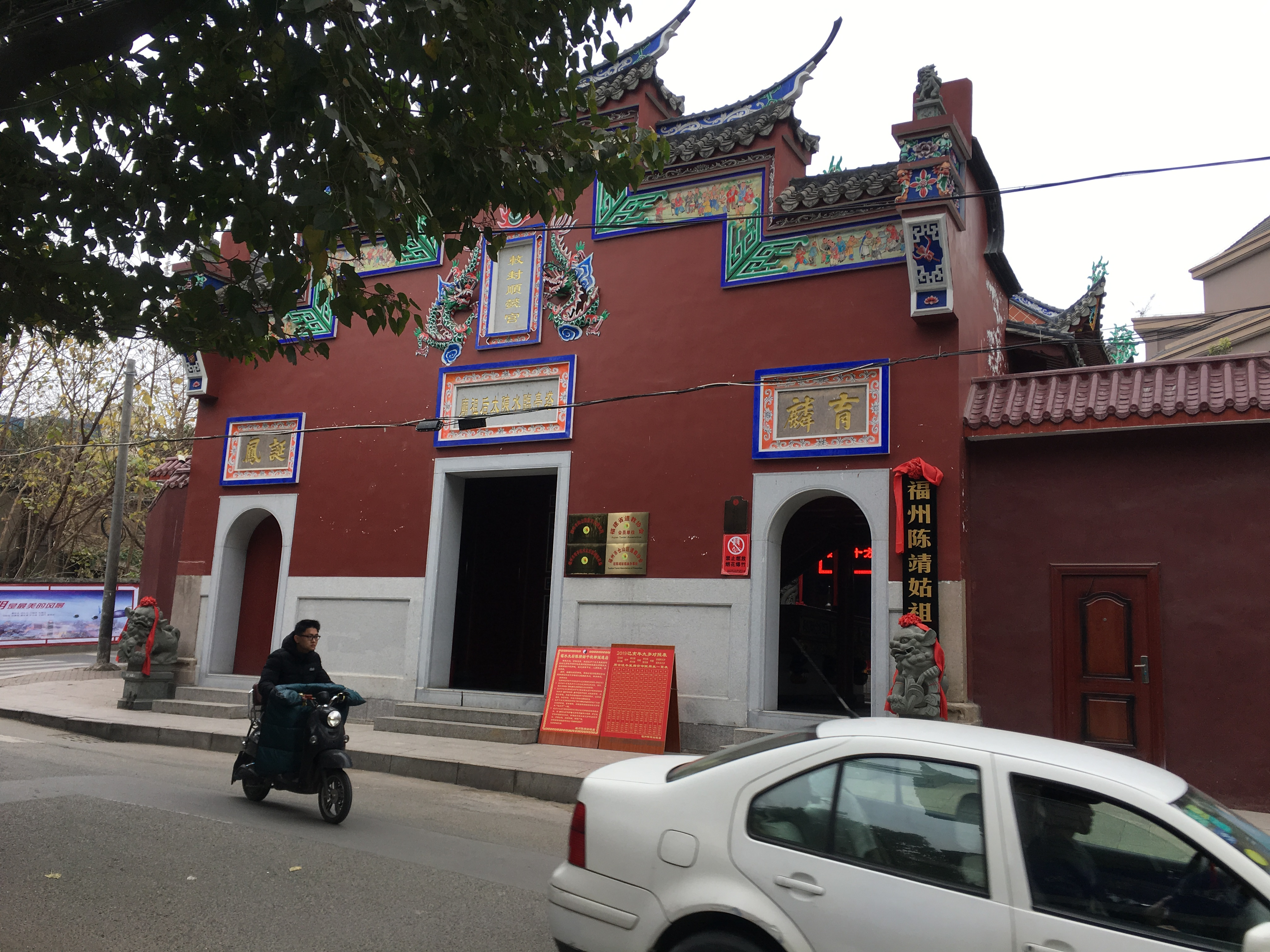 Fuzhou Chenjinggu Temple, located at No. 6 Tating Road, Linjiang Subdistrict, Cangshan District, Fuzhou City, Fujian Province, China